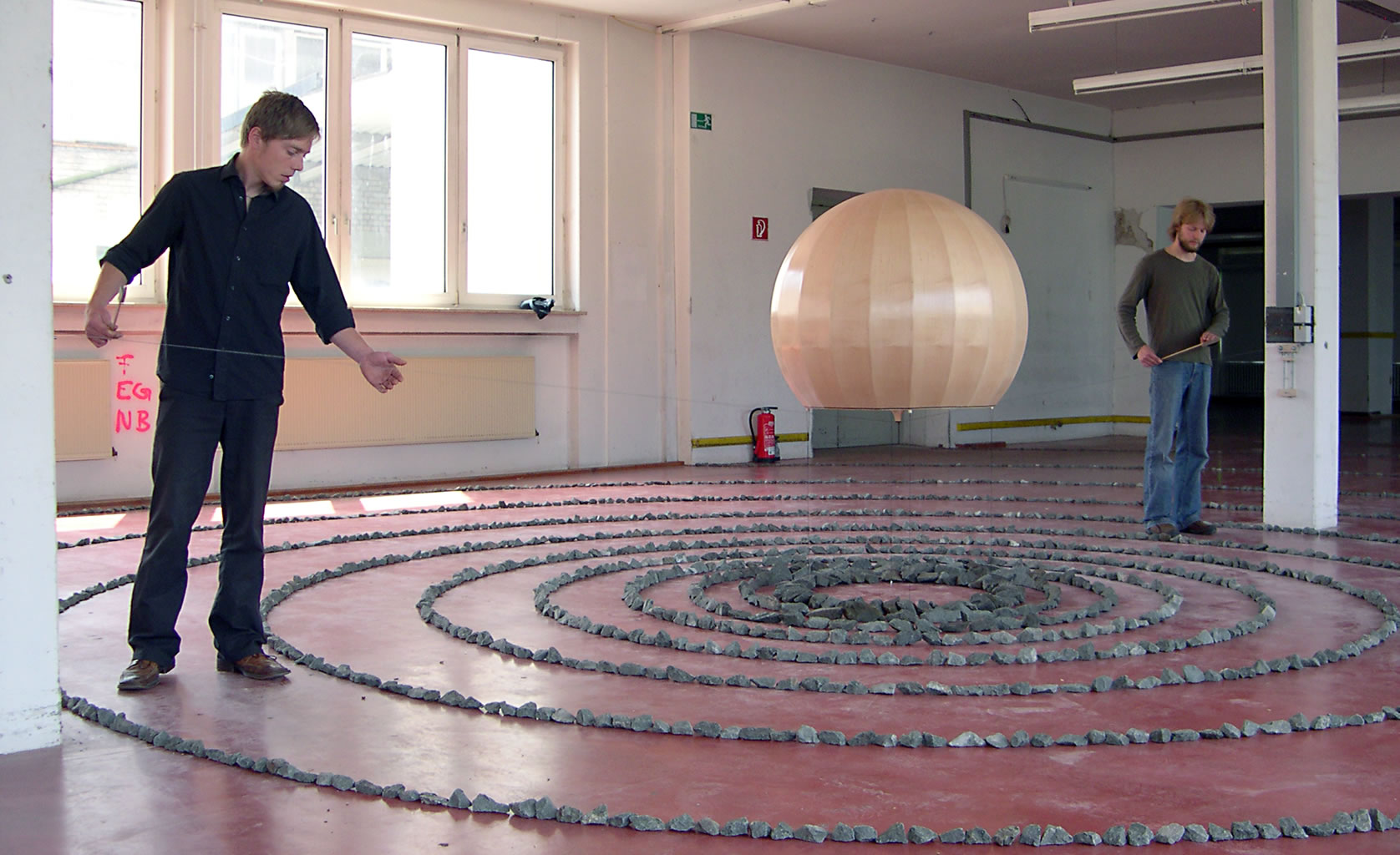 Space-Sound-Installation from Florian Tuercke and Laci Zajac. Exhibition "Klasse Sayler" at Manz-Fortuna, Höchstadt Germany, 2004.